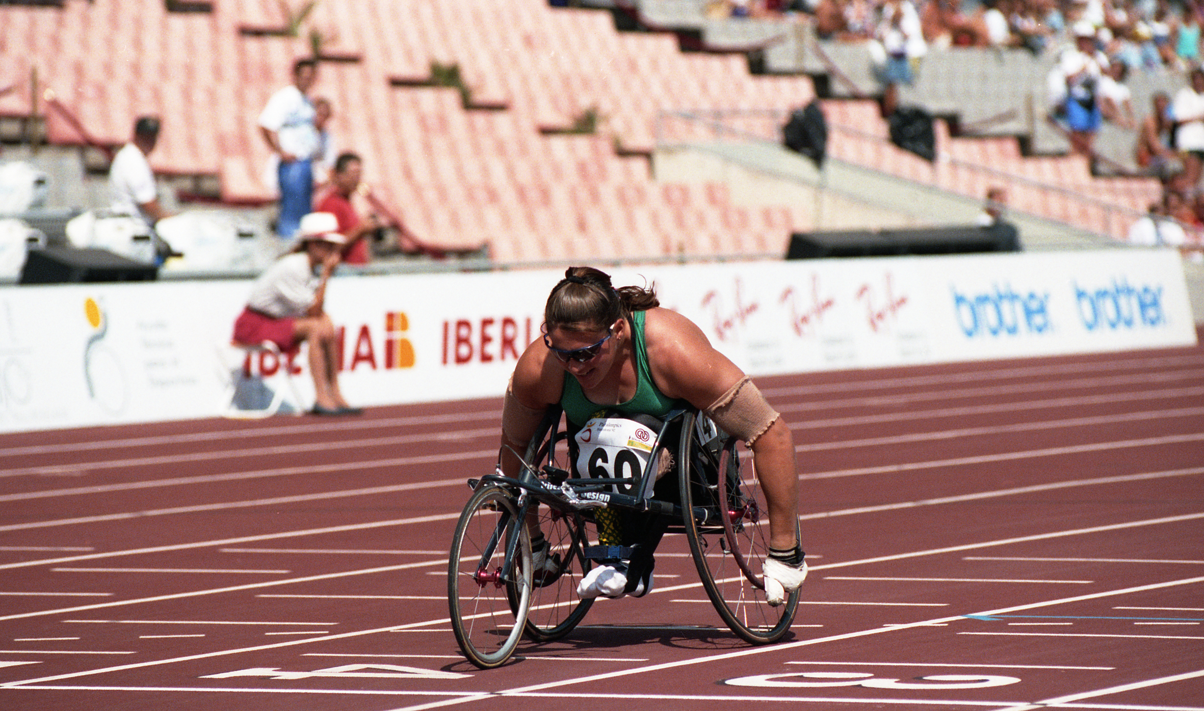 Louise Sauvage on the track at the 1992 Paralympic Games in Barcelona.